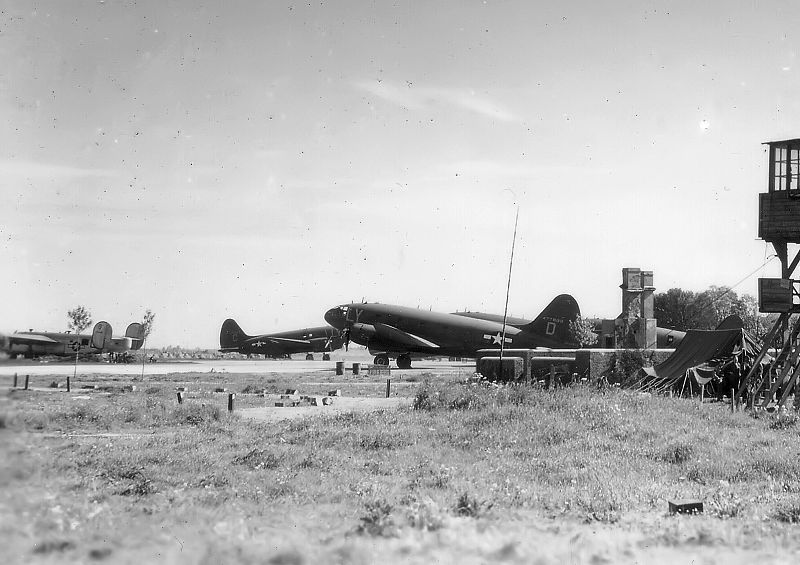 349th Troop Carrier Group - RAF Barkston Heath, England, 1945. "LY" C-47 assigned to 314th Troop Carrier Squadron